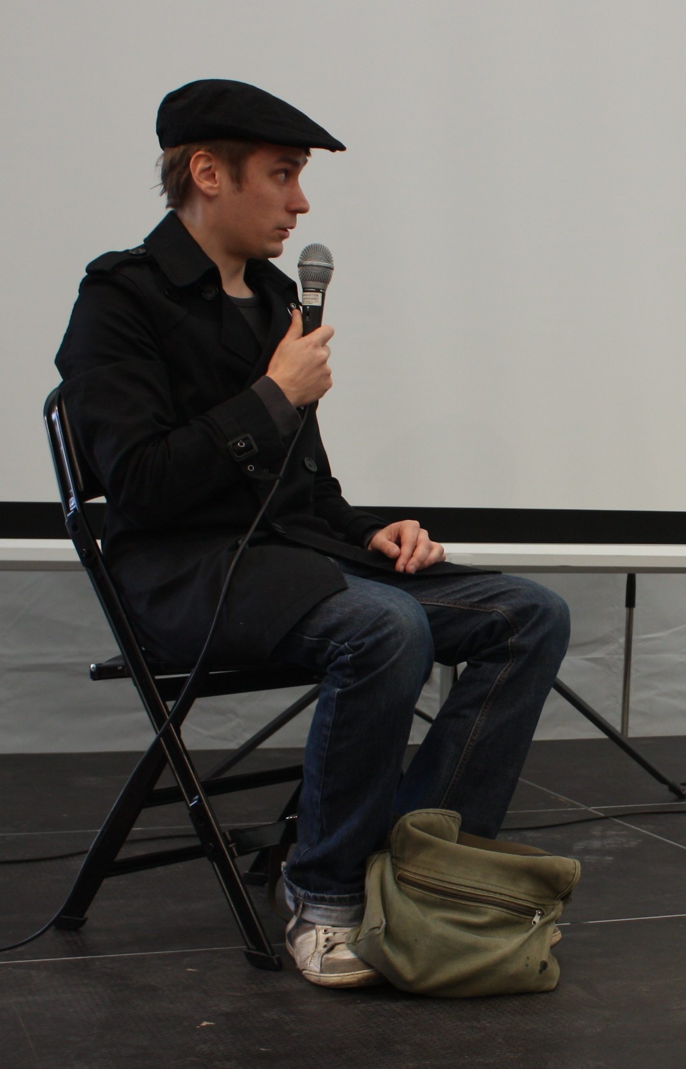 Finnish comics artist Kari Sihvonen is interviewed at the 25th Helsinki Comics Festival